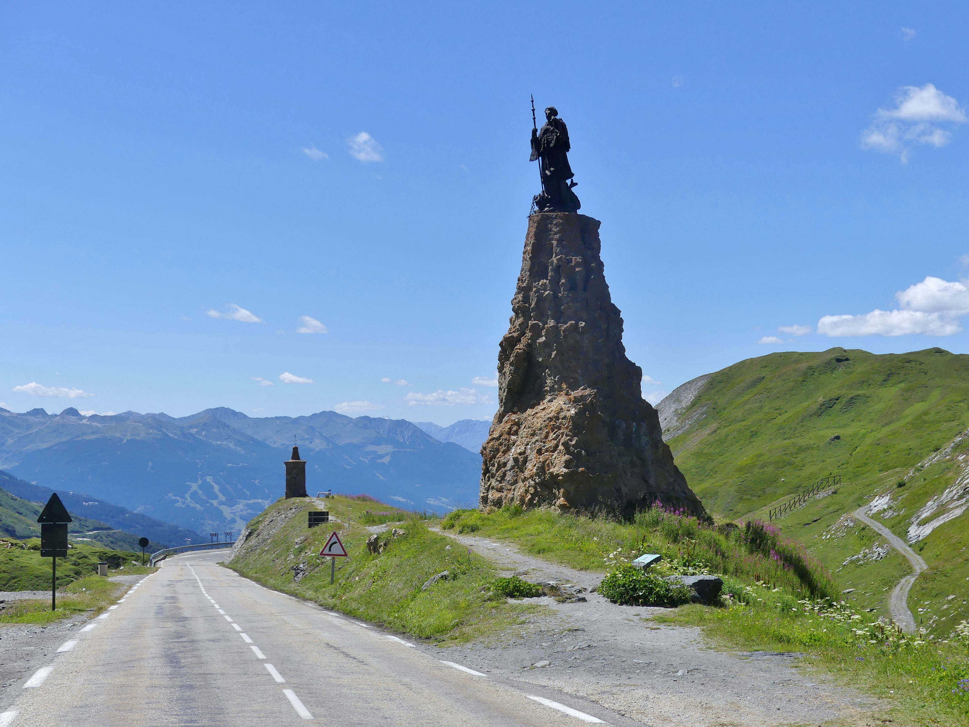 Sight of Saint-Bernard of Menthon statue and its pedestal, underneath the Petit-Saint-Bernard pass in Savoie, France.